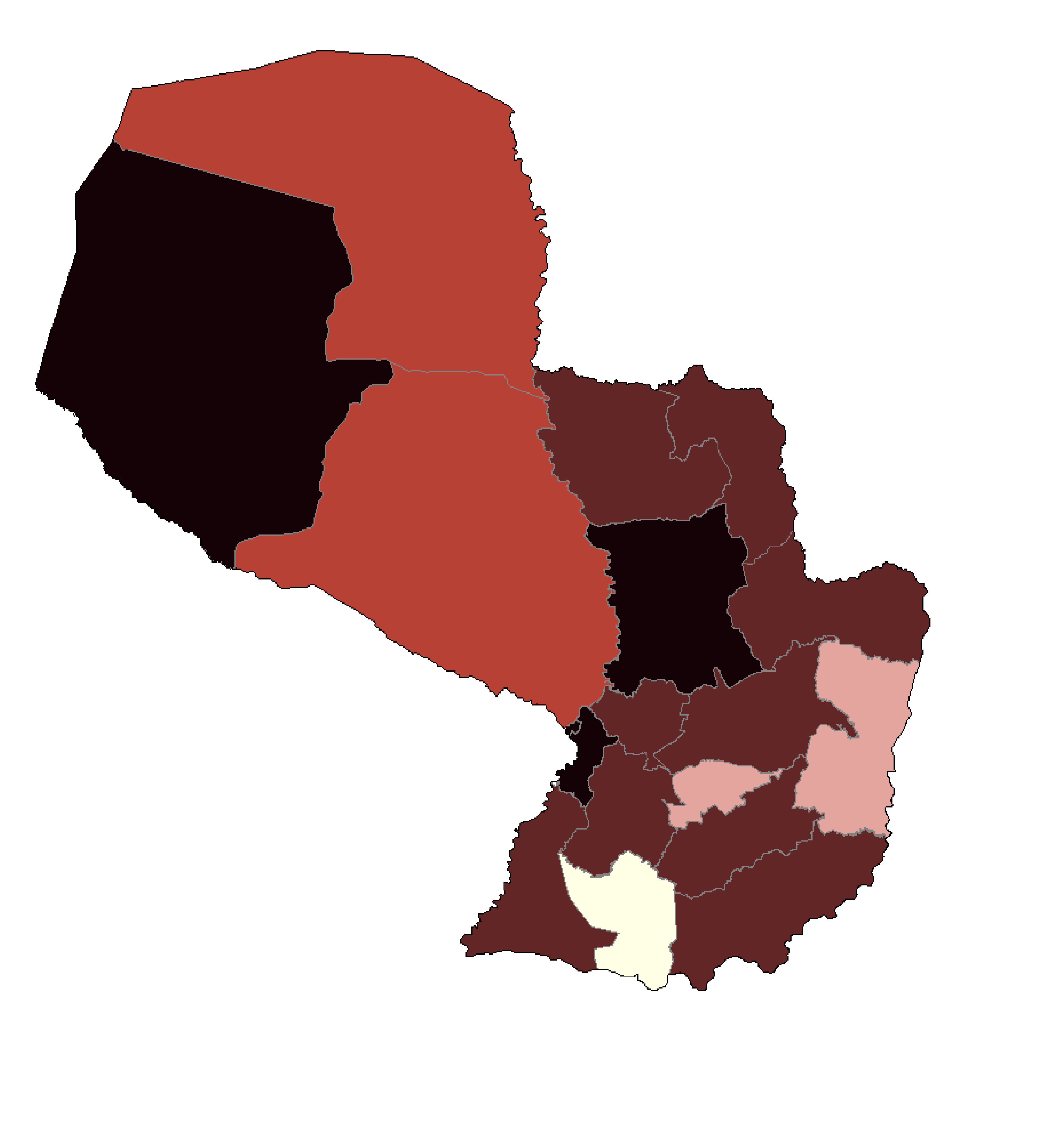 Dengue epidemic 2019-2020 in the Republic of Paraguay